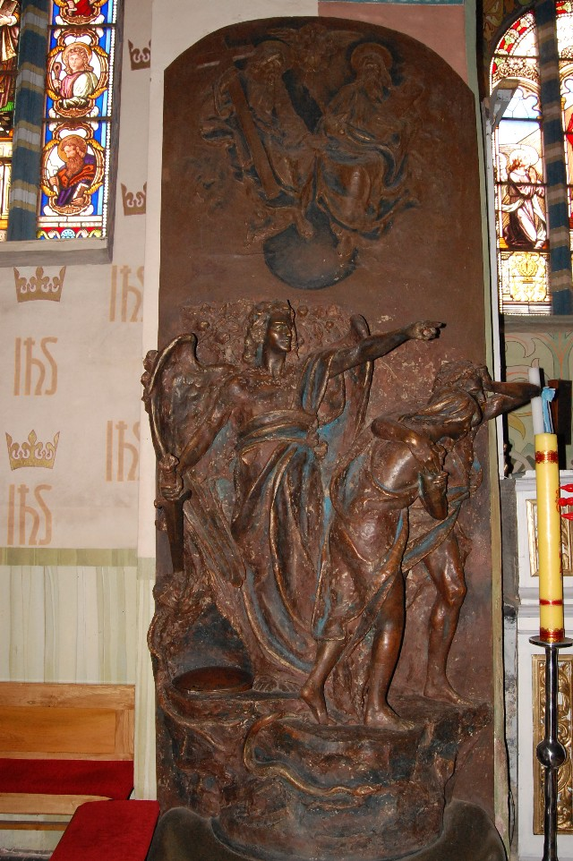 Baptismal font in church in Służewo, Poland